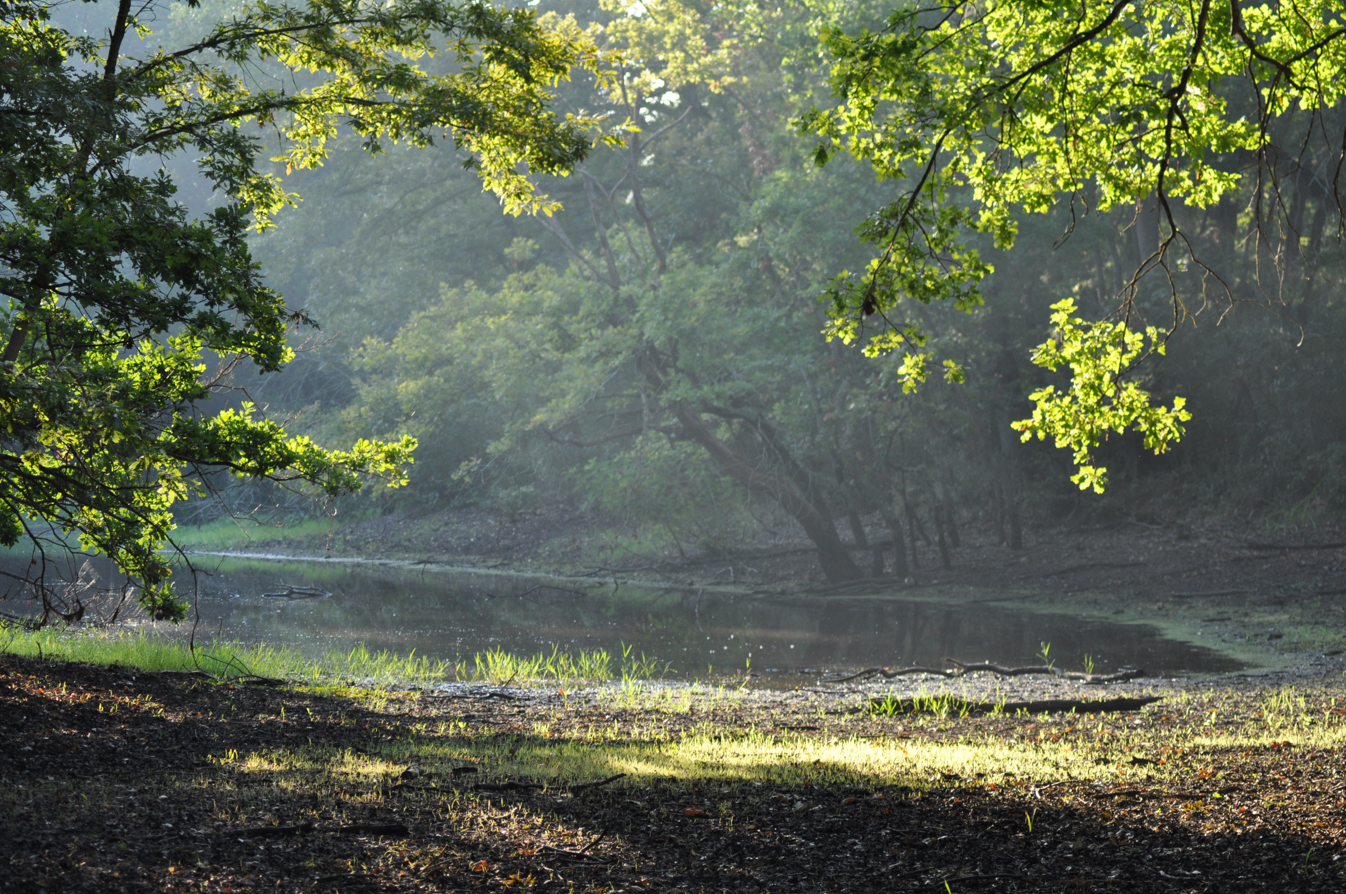 Glimpse of the pond of Bosco di Foglino